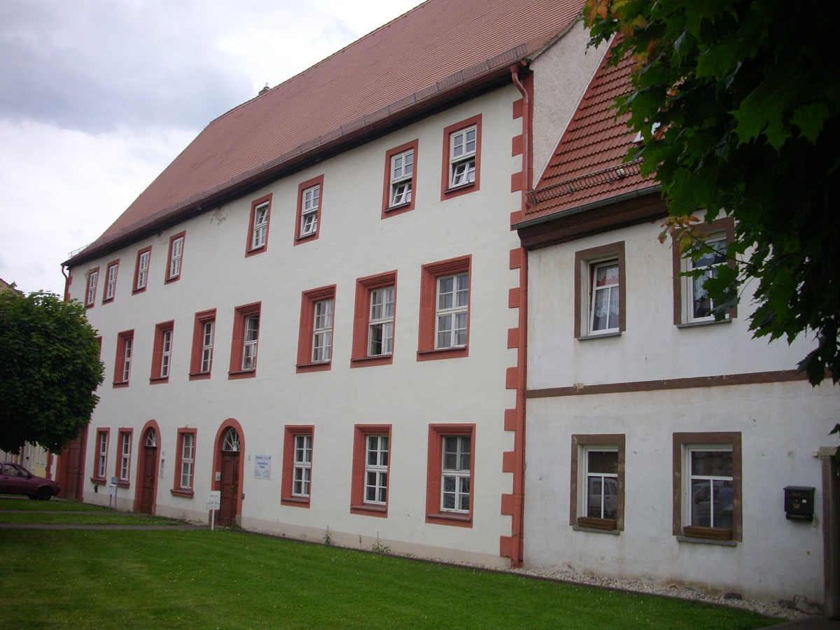 Protestant church office in Pegau, Saxony, 16th century